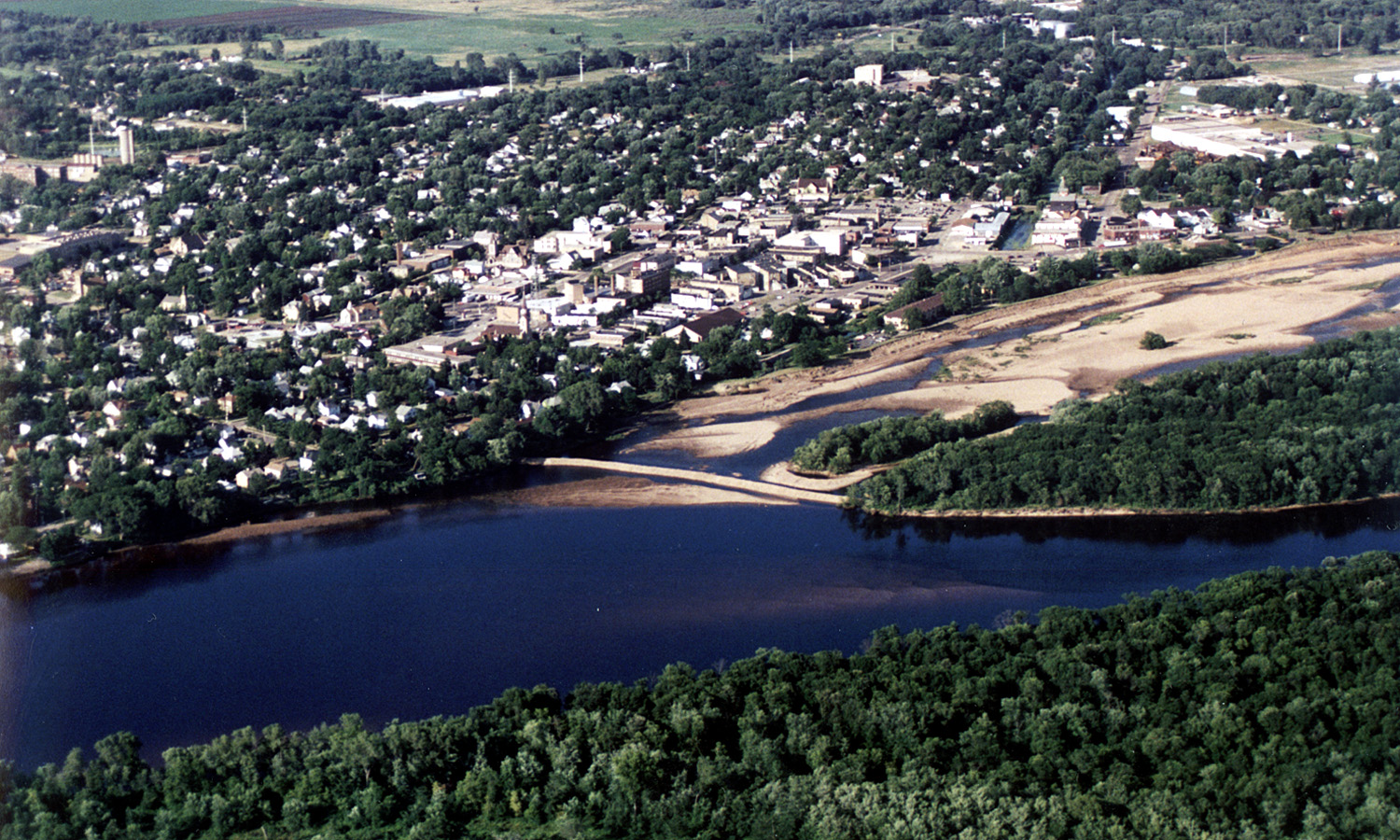 Aerial view of the City of Portage, Wisconsin, USA on the Wisconsin River. Upstream end of project showing cofferdam protecting river borrow area. Portage canal leading to the Fox River, visible on the right.